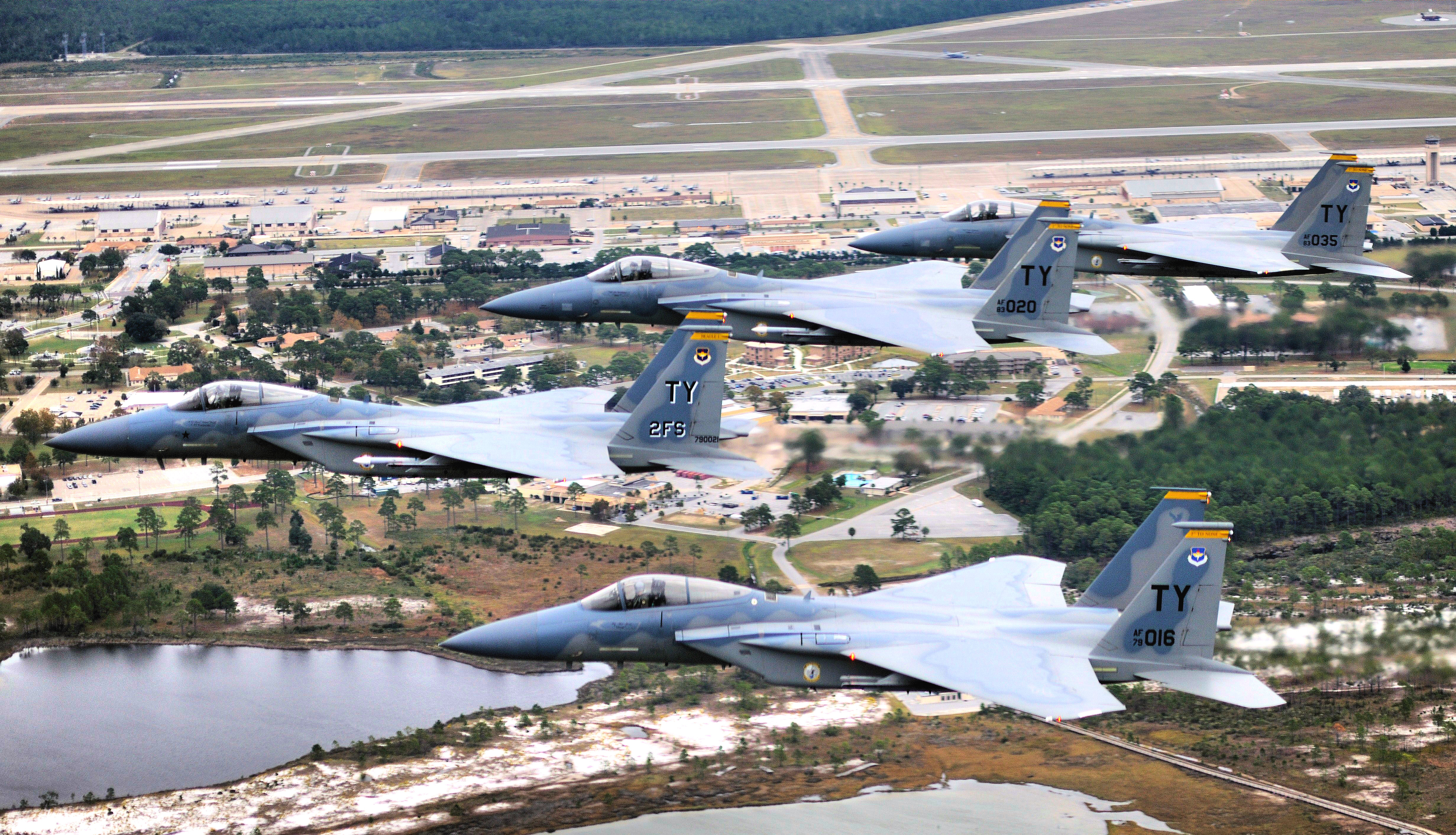 F-15s from the 2nd Fighter Squadron conduct a four-ship formation over Tyndall Air Force Base. (Photo 4/4)